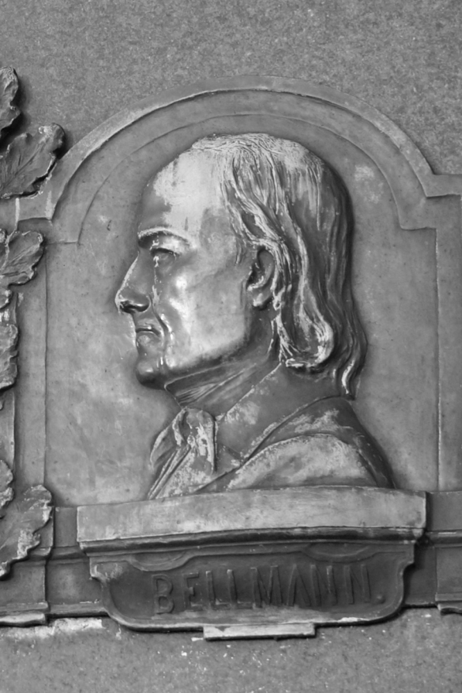 Face of Carl Gottlieb Bellmann on the basement of Bellmann Chemnitz memorial from 1894 in Schleswig. Converted to black and white due to graphiti vandalism.